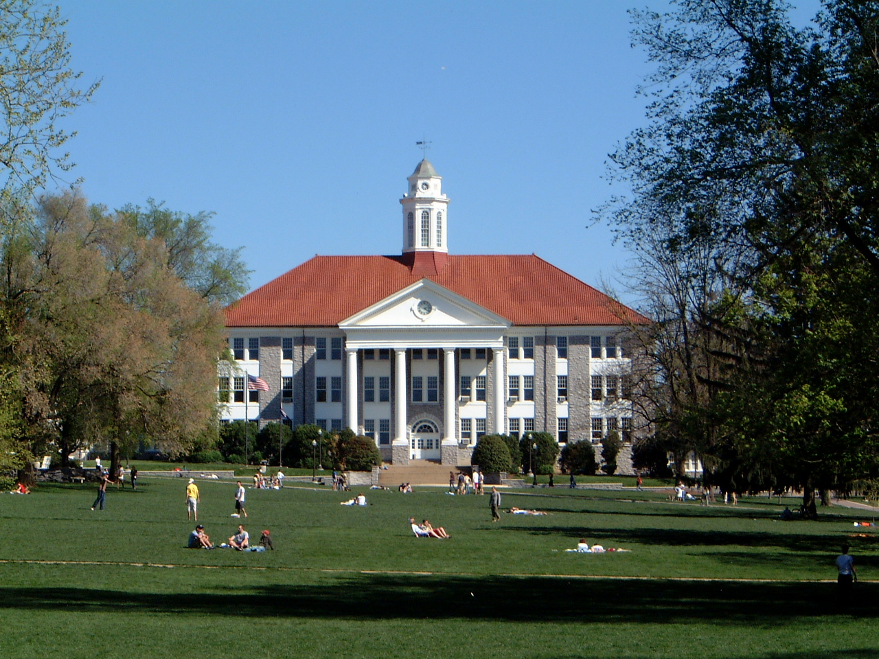 James Madison University quad in Harrisonburg, VA, United States. Created by User:Alma mater May 3, 2006 with GFDL lisence allows anyone to use this picture for any purposes.